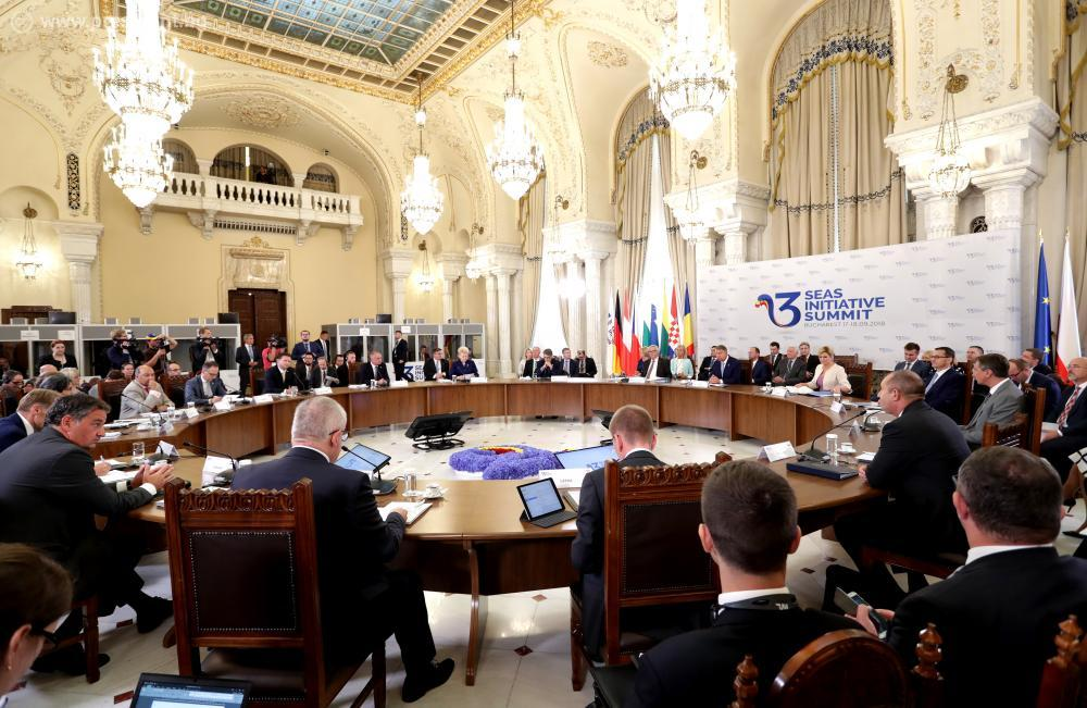 The Bulgarian Head of State is on a visit to Romania to take part in the Three Seas initiative summit.